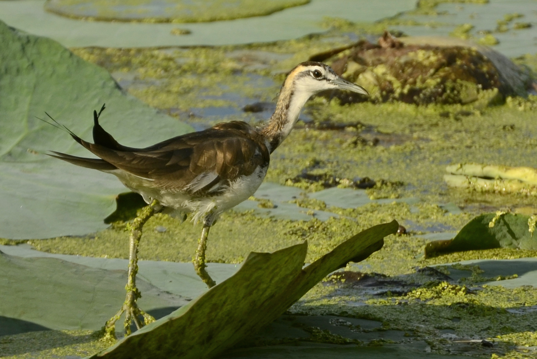 Pheasant-tailed jacana (Hydrophasianus chirurgus) from Aranthangi_Pudukkotai District_Tamil Nadu